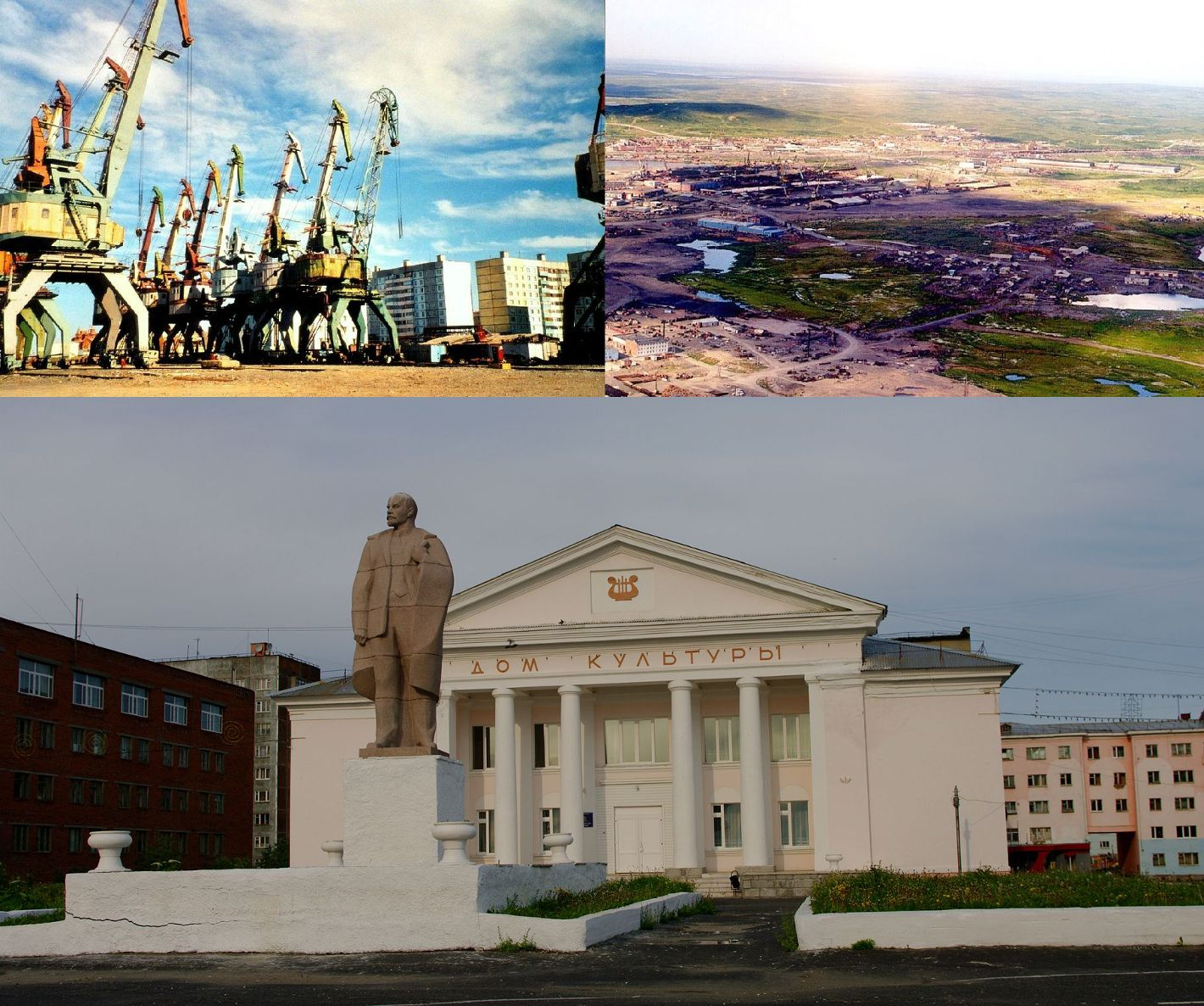 Photos of Dudinka, Taymyria (Dolgano-Nenets Okrug). Clockwise: Dudinka Port, Aerial view of Dudinka; House of Culture.